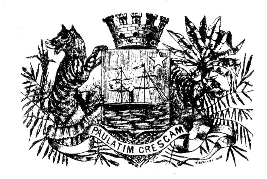 The crest of Saigon from 1870 to 1975.